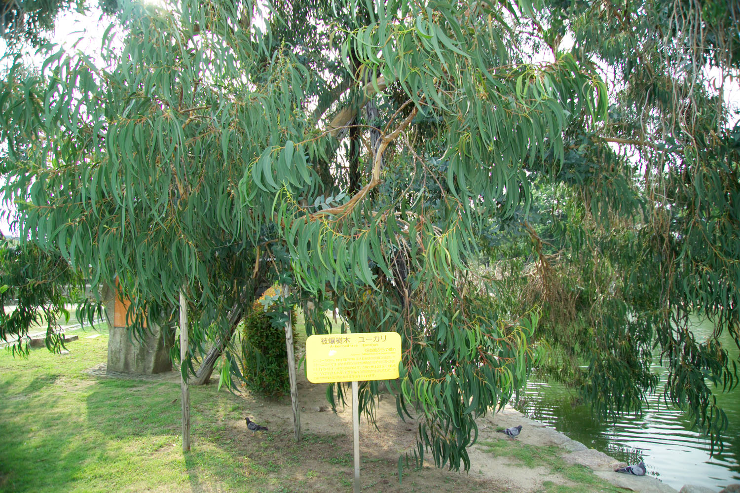 Eucalyptus tree at Hiroshima Castle, Hiroshima, Japan. Located 740 m from Ground Zero, this tree survived the atomic bombing, although the castle was leveled. I took this photo.